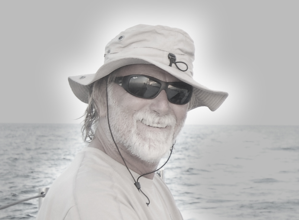 Italian champion Mauro Pelaschier during the "Palermo-Montecarlo 2009"